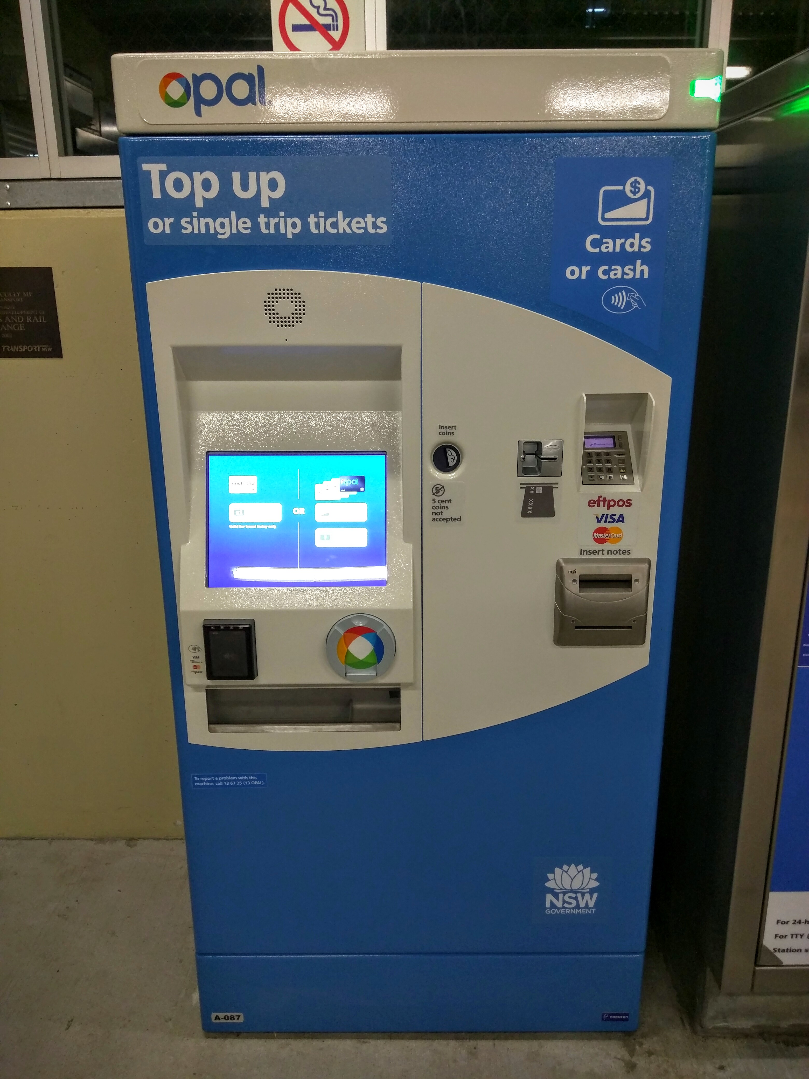 Opal card Top up machine at Engadine train station